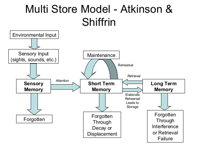 Acquired from